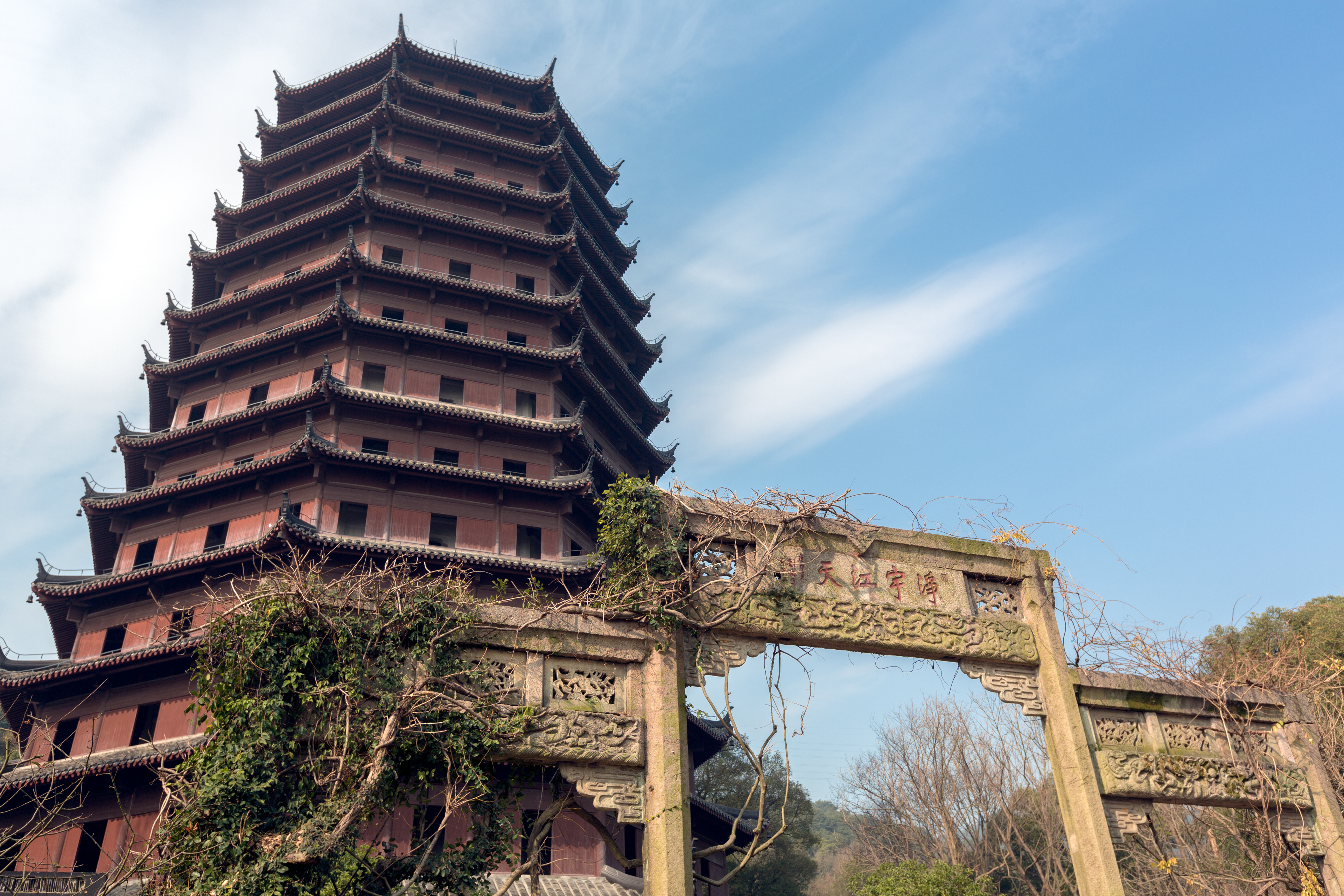 Liuhe Pagoda